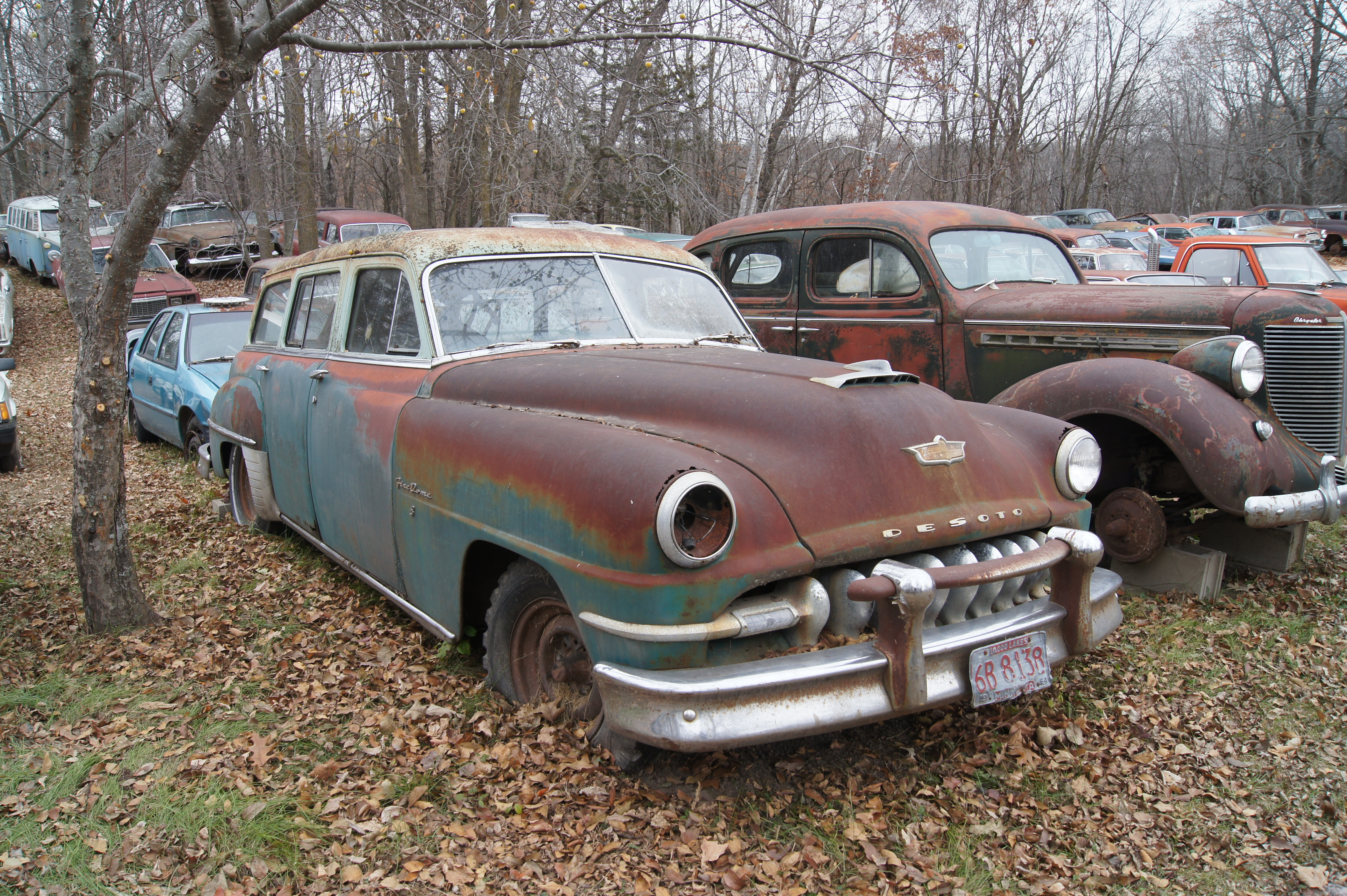 Members from the Alexandria Vintage Car Club, Pantowners and the Wright County Car Club joined the Willmar Car Club for an excellent breakfast buffet at the Hilltop Restaurant in Paynesville. People came from dry weather from all directions to find Paynesville had snow on the ground. A tour took off after breakfast and headed to see the impressive displays at the Paynesville Area Historical Museum. Then the group was off to tour Pantowner Jim's ambitious collection of completed, project and parts cars. A little further down the road the group was fortunate to view another Pantowner, Pete's fantastic collection.